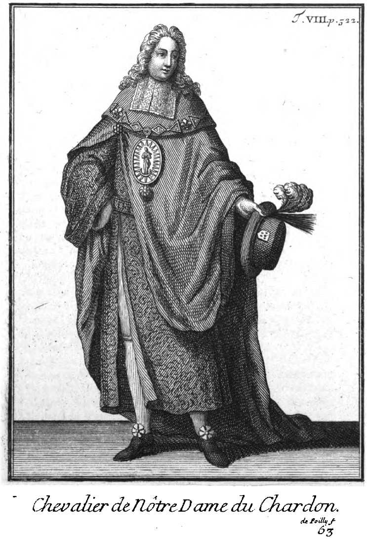 Reconstruction of the ceremony cloth of a Knight of the Our Lady of the Thistle in "Histoire des ordres monastiques, religieux et militaires, et des congregations seculieres de l'un & l'autre sexe, qui ont esté establies jusque'à present"